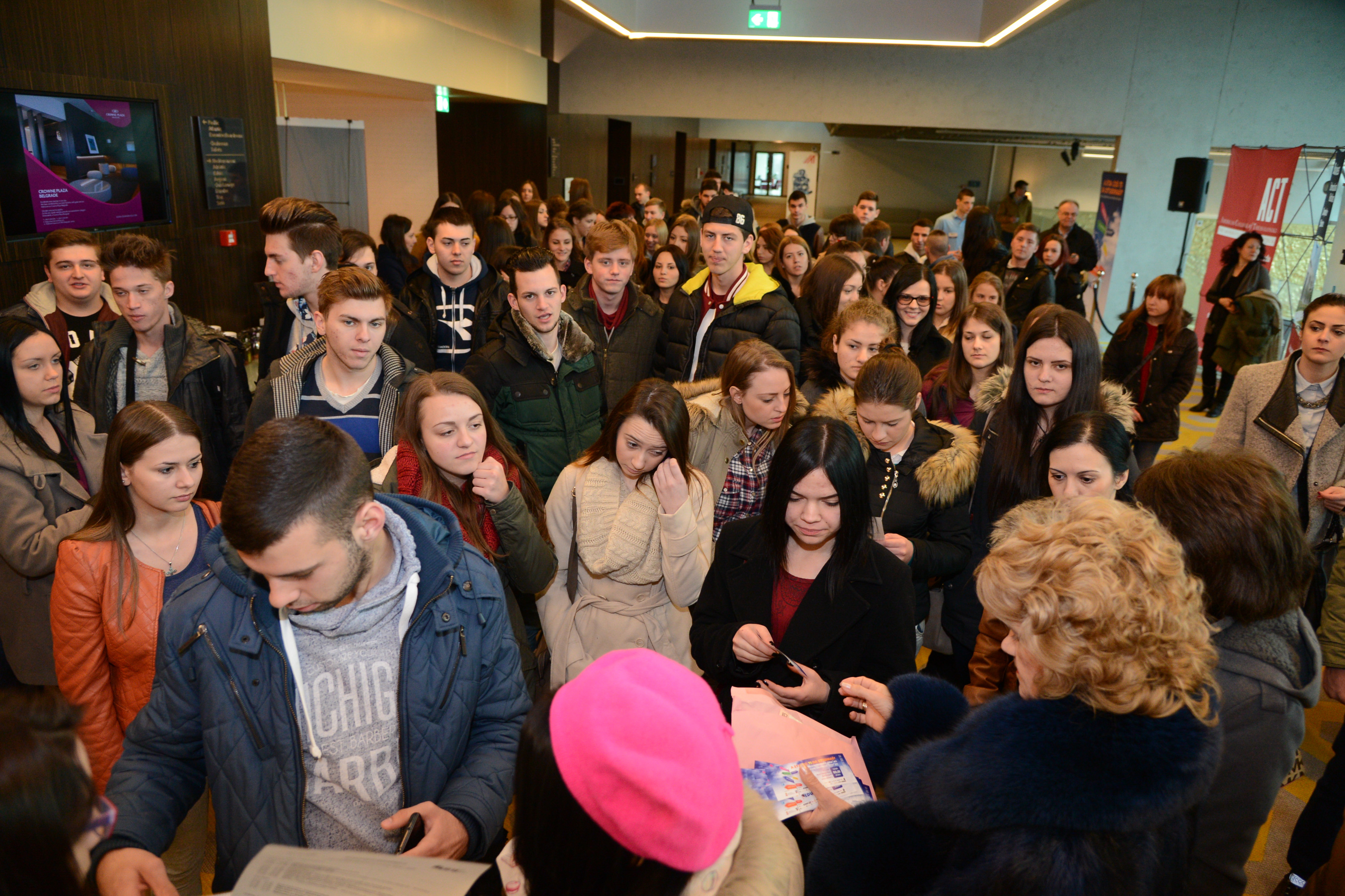 Slika sa prethodnog EDUfair-a